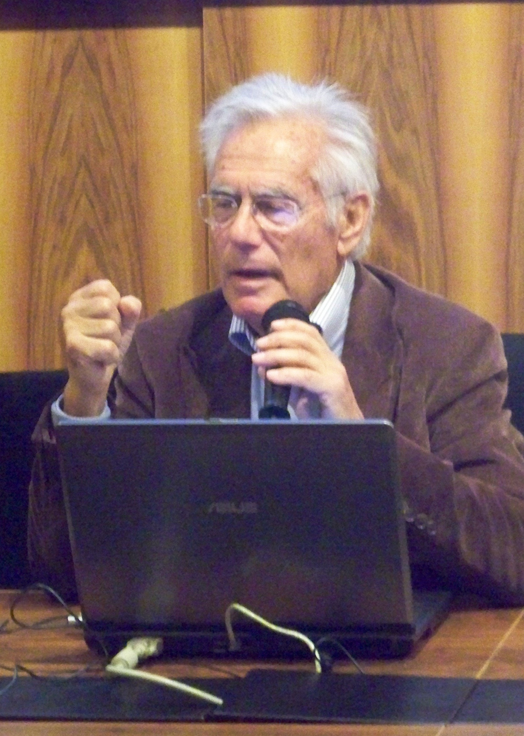 Gianluigi Gessa pharmacologist